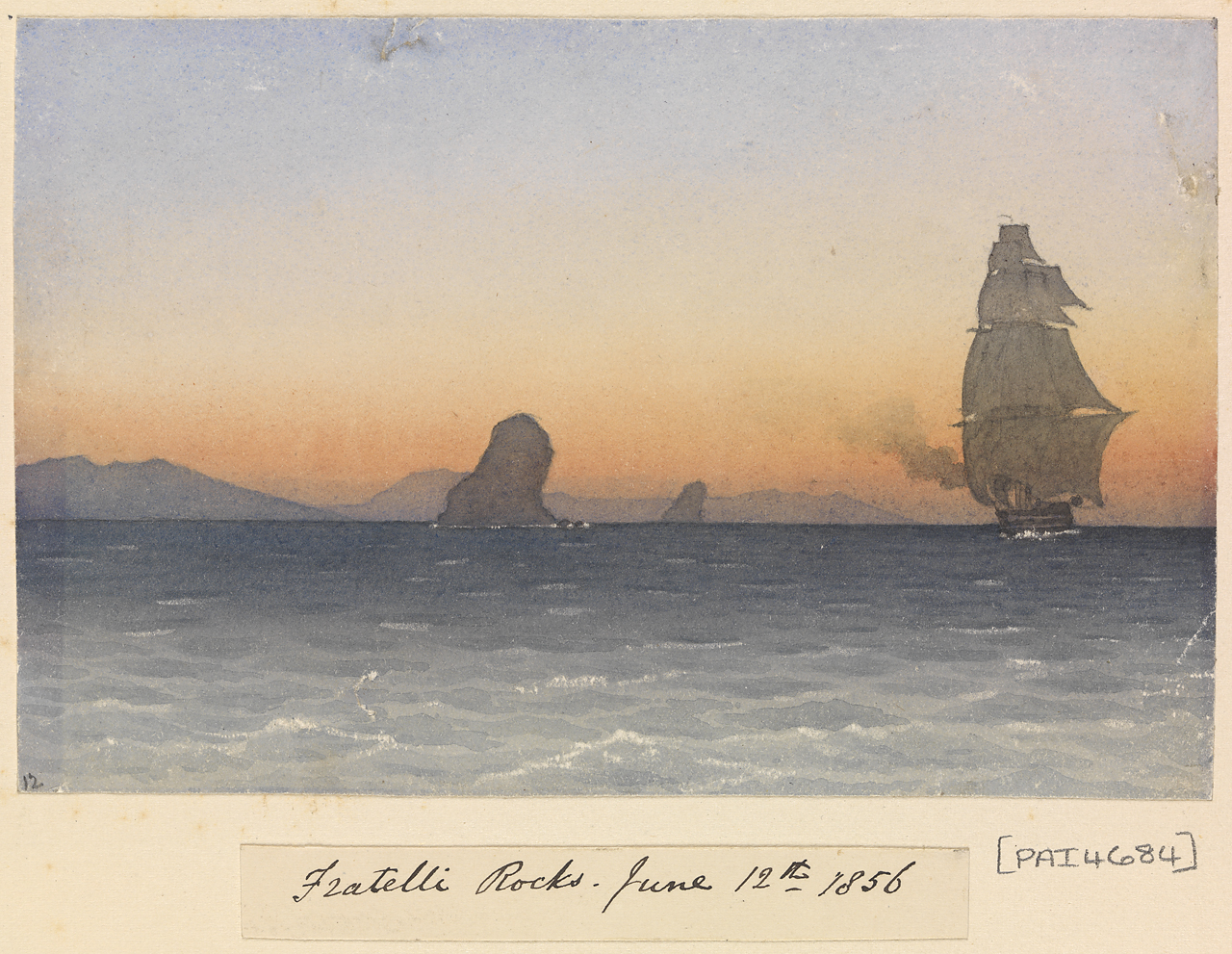 'Fratelli Rocks, June 12th 1856' [Tunisia].